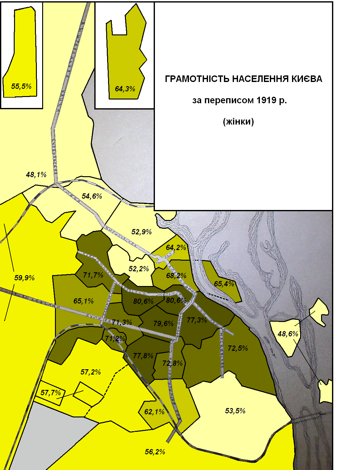 Literacy rate in districts of Kyiv according to 1919 census (women)